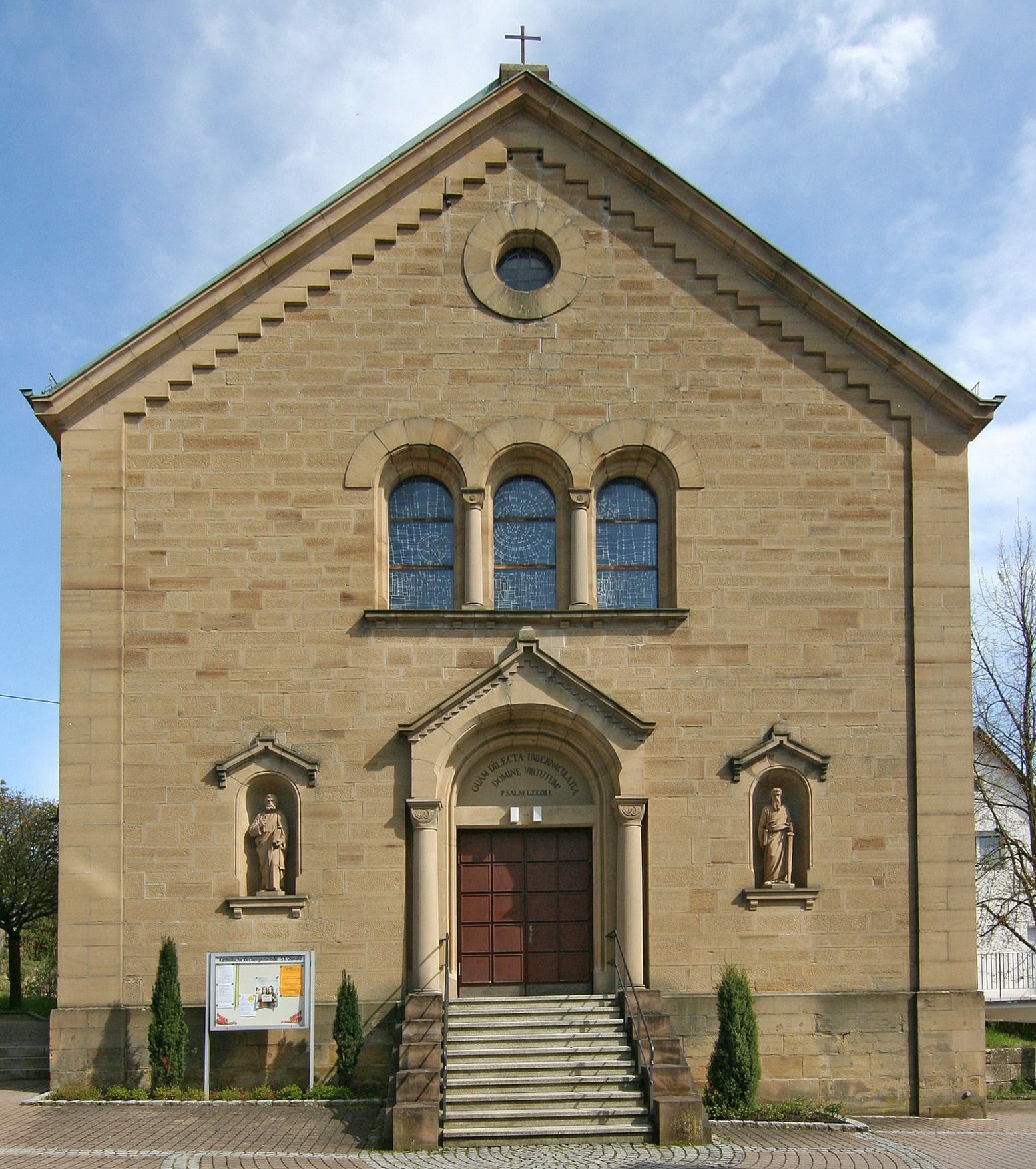 The Roman Catholic church St Oswald in Weinsberg-Wimmental from the West